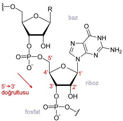 Diagram to illustrate 5' to 3' directionality in a nucleic acid (shown here in an RNA structure) (text in Turkish). Modified from Image:RNA chemical structure.GIF